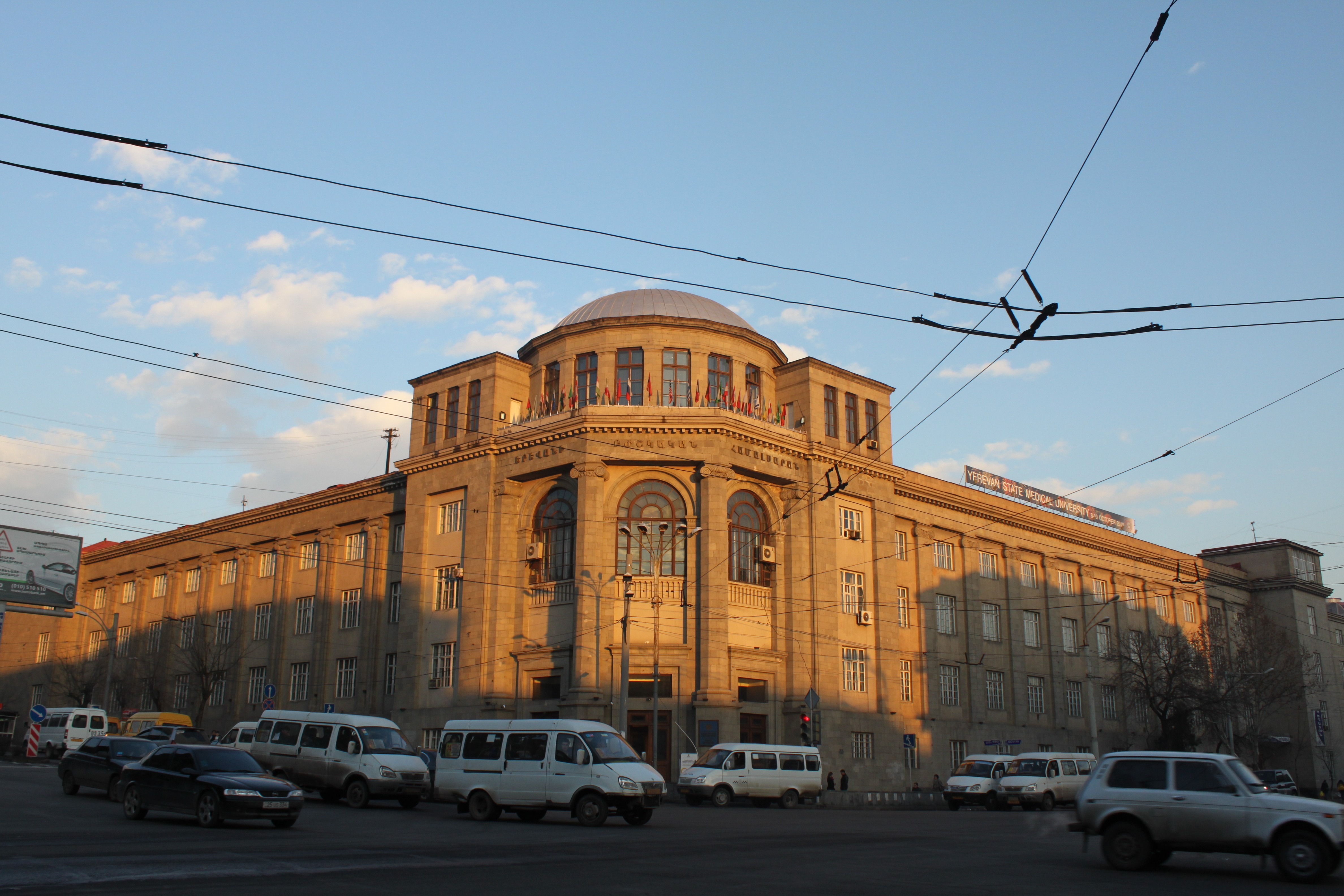 View of the main building of Yerevan State Medical University from the corner of Koryun and Abovyan Streets.